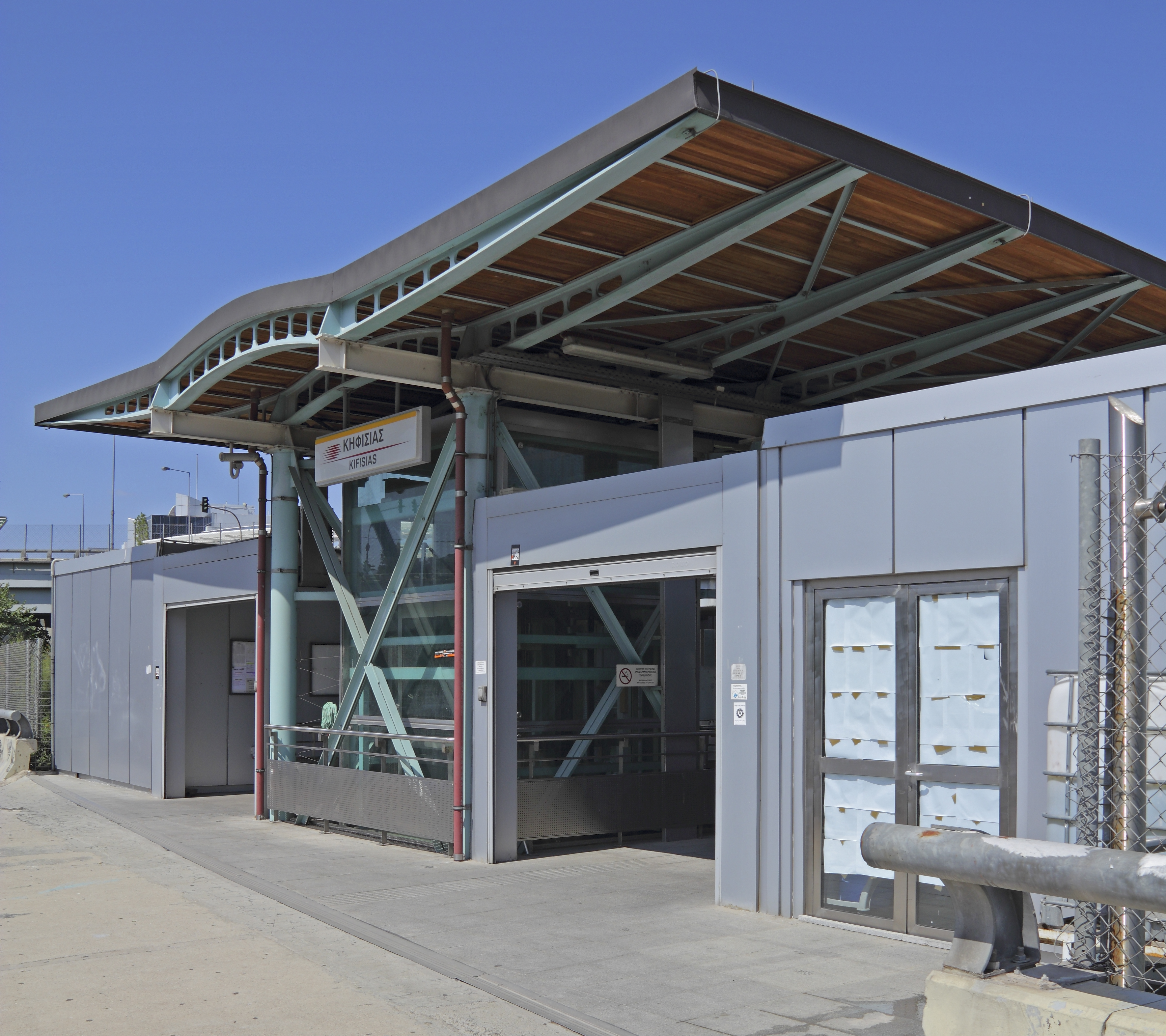 Proastiakos station «Kifissias» (Kifissias Avenue) near Athens (Attica, Greece)